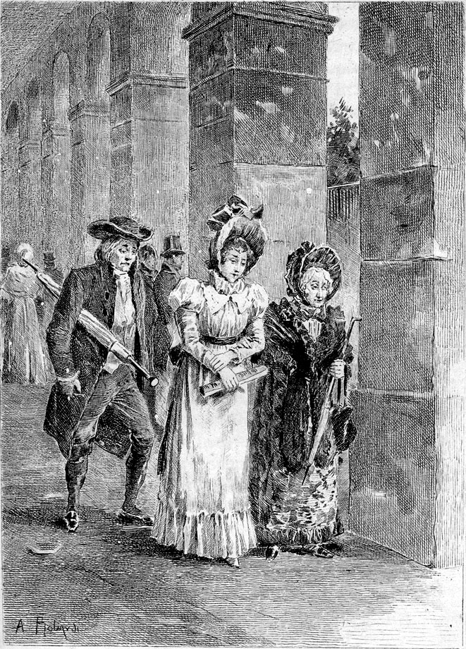 Title page of Honoré de Balzac's The House of Nucingen (1837).